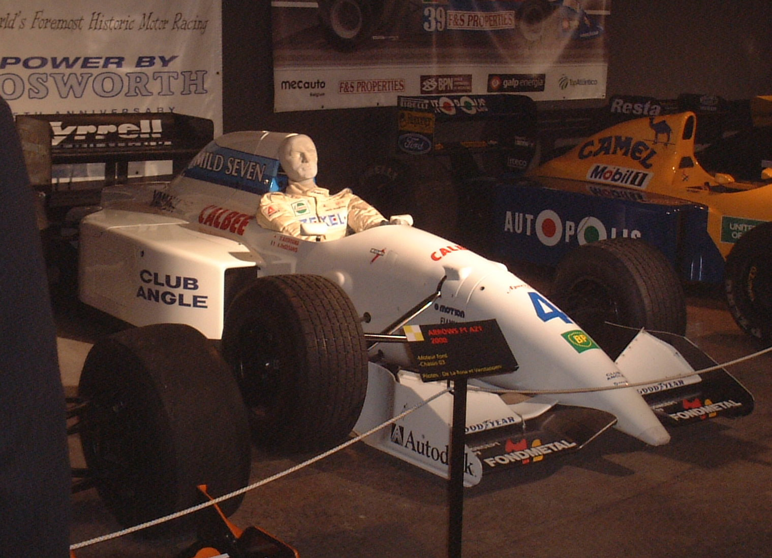 Tyrrell 021, Formula One car driven by Andrea de Cesaris and Ukyo Katayama during the 1993 season.